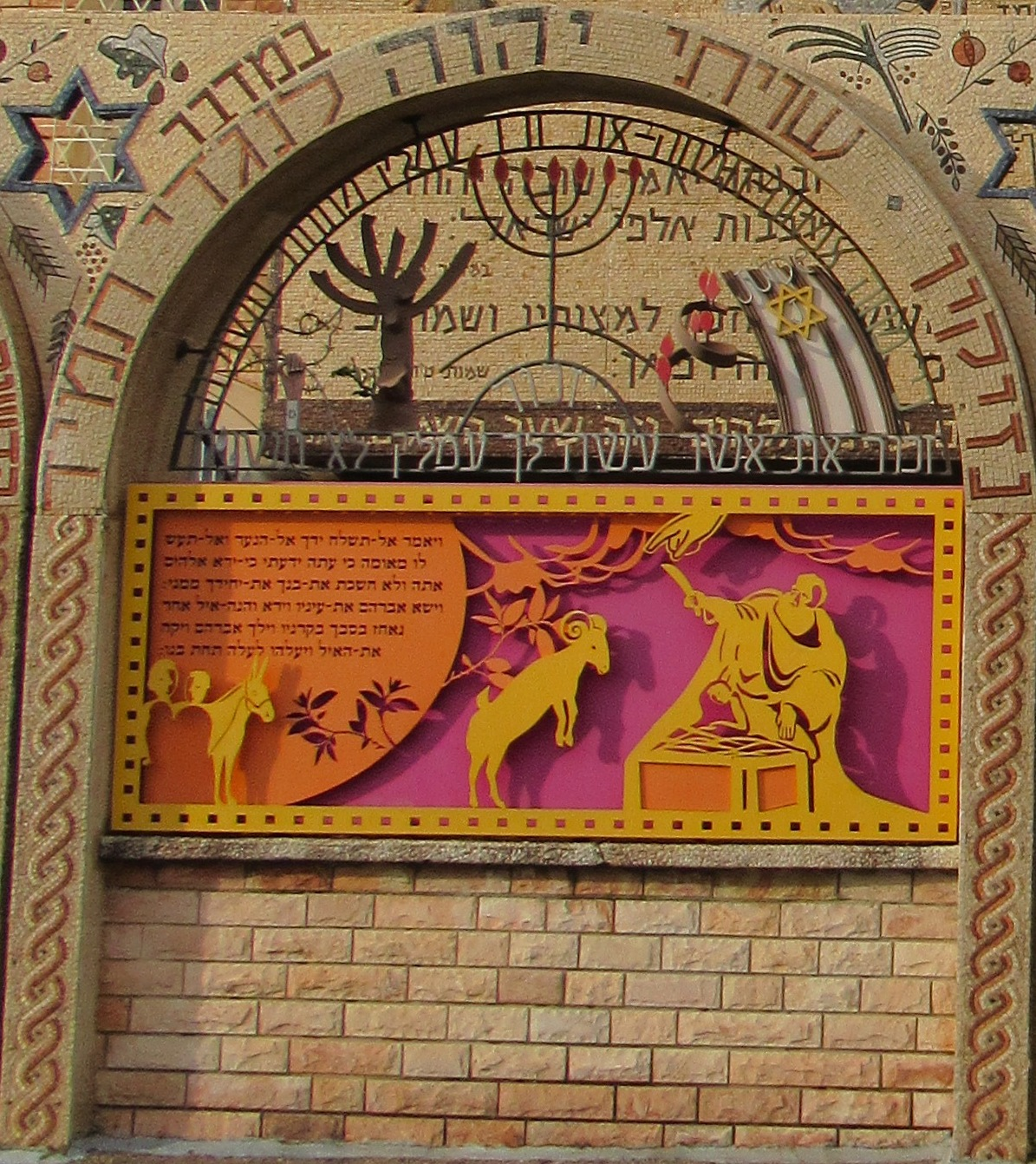 The Tunisian Jews Synagogue, Akko (11 April, 2015).XXIX